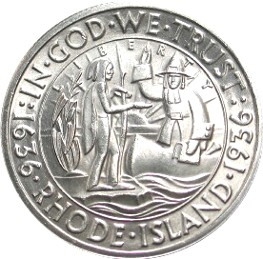 Rhode island tercentenary half dollar commemorative obverse